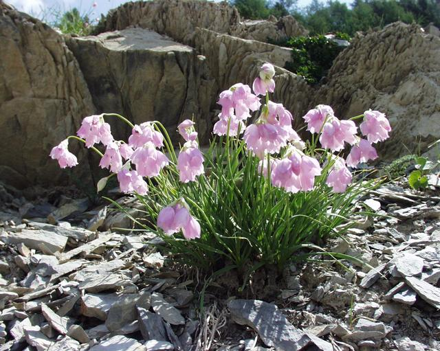 (en) Allium narcissiflorum, a photography originating of the internet site The accord of the autor, H. Brisse, is here. (fr) Ail à fleurs de narcisse (Allium narcissiflorum), une photographie issue du site internet L'accord de l'auteur, H. Brisse, se situe ici. (de)Piemonteser Lauch, (it)Aglio piemontese